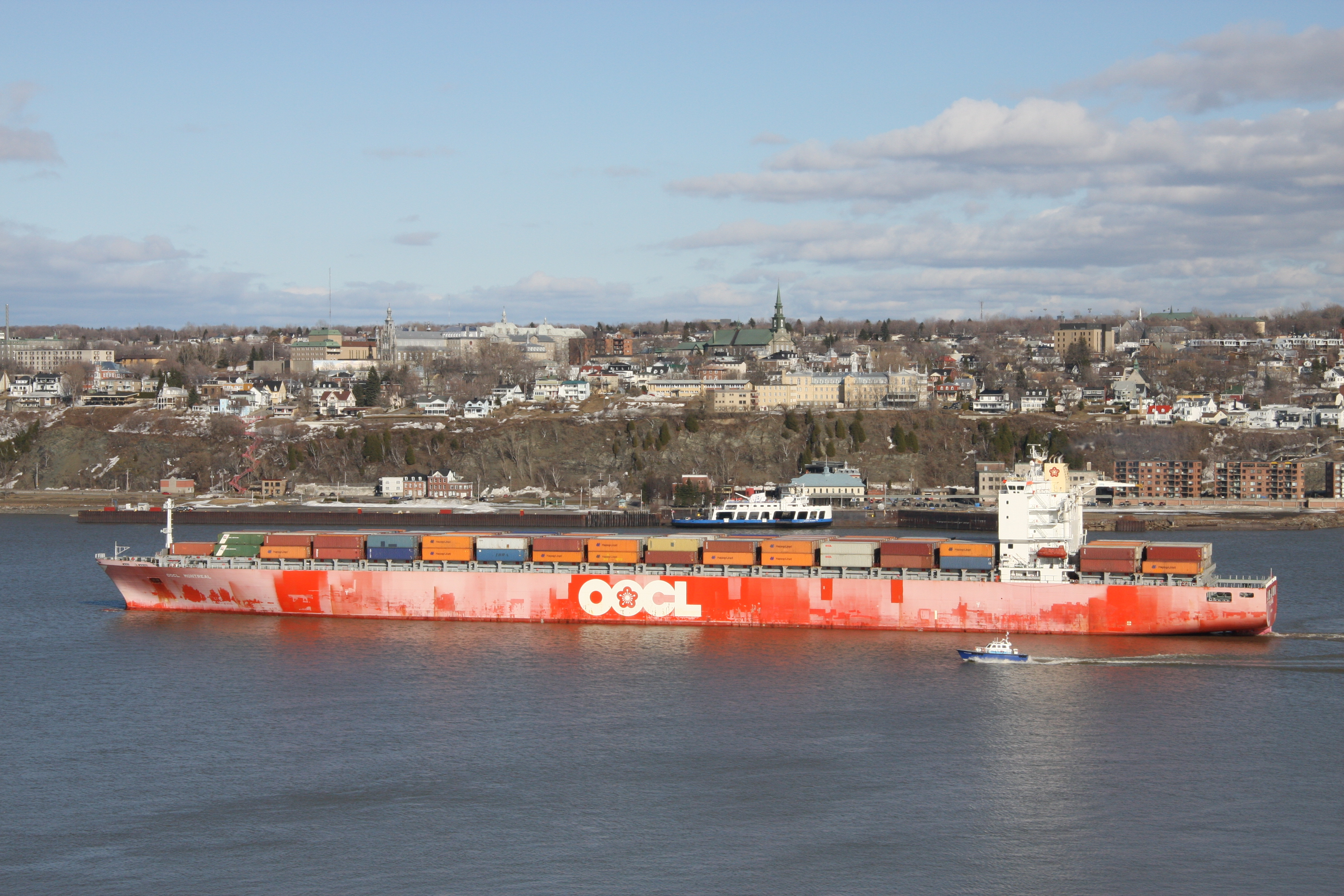 Container ship OOCL Montreal on the Saint Lawrence River between Lévis and Quebec City.